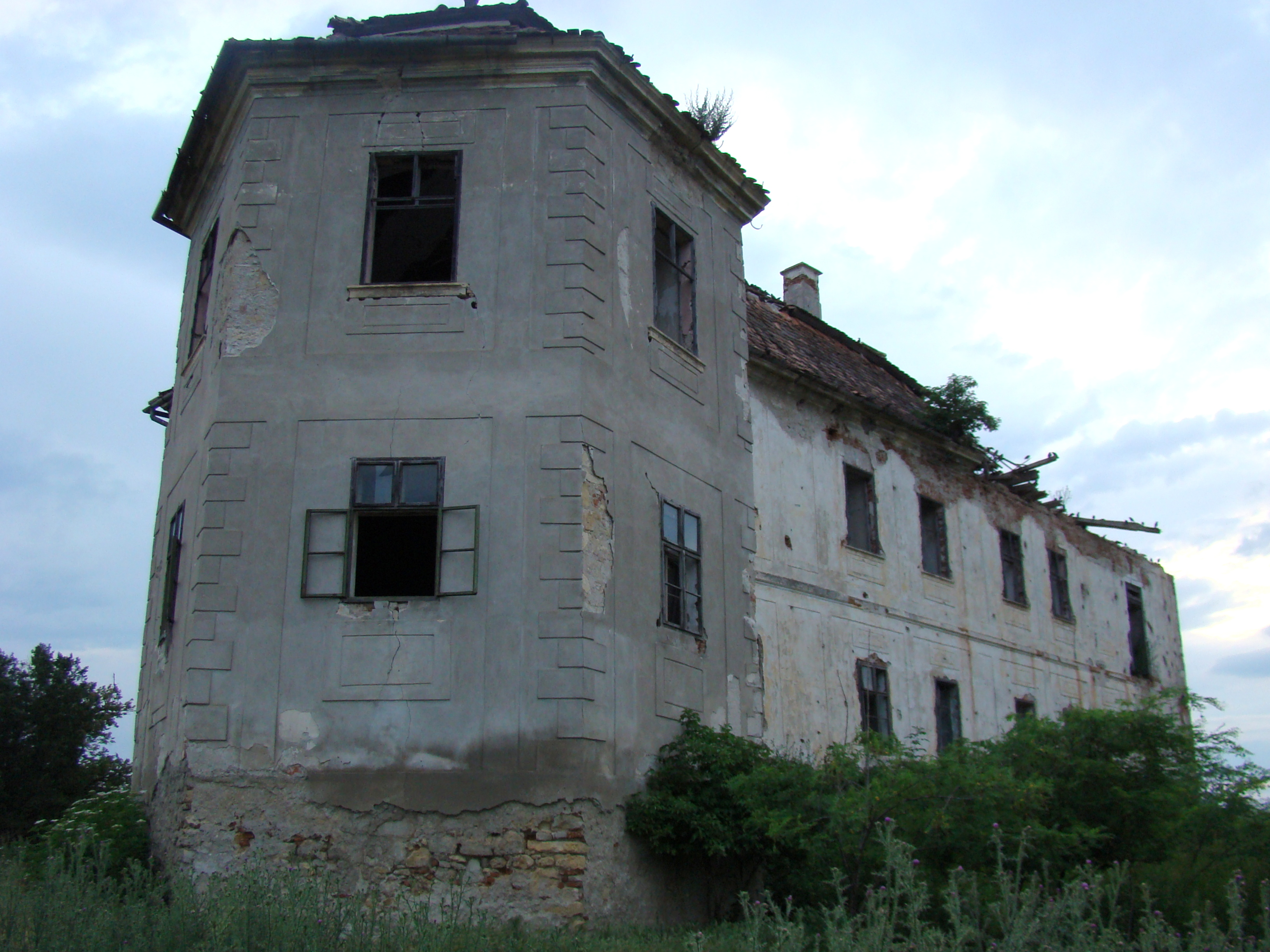 Kemény-Bánffy castle in Luncani, Cluj county, Romania